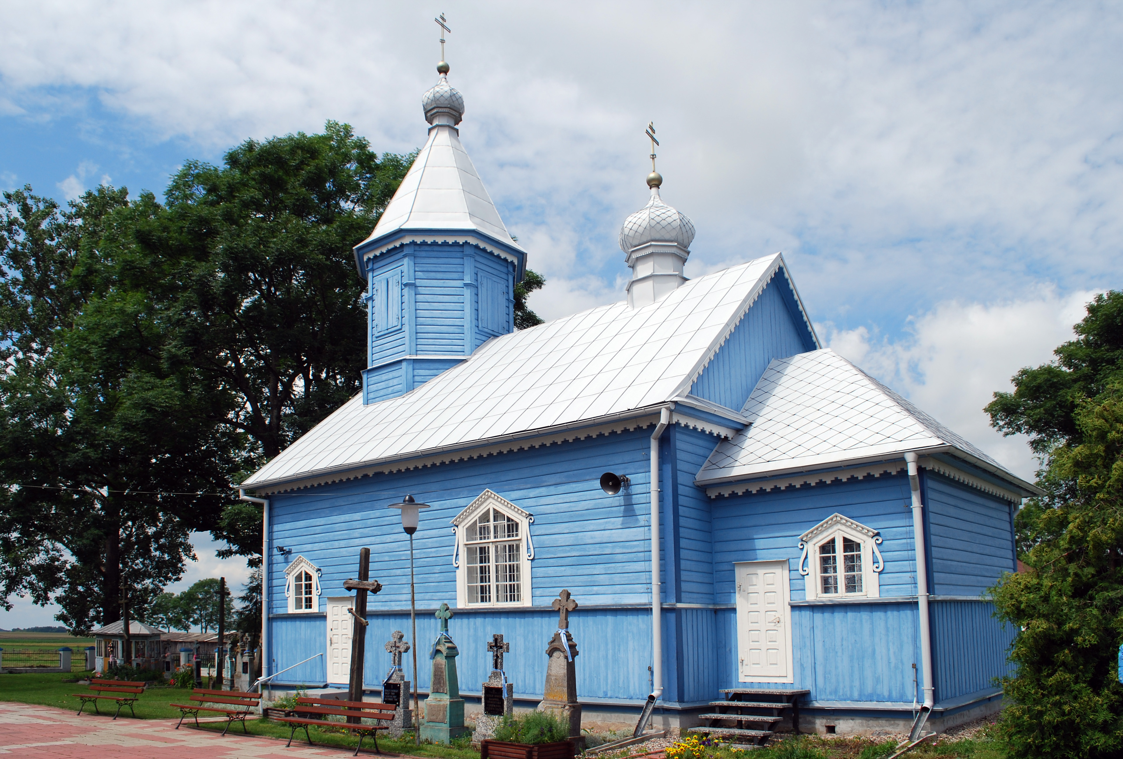 This photo from Podlaskie Voievodeship was taken during Polish Wikiexpedition 2009 set up by Wikimedia Polska Association. The making of this document was supported by Wikimedia Polska.